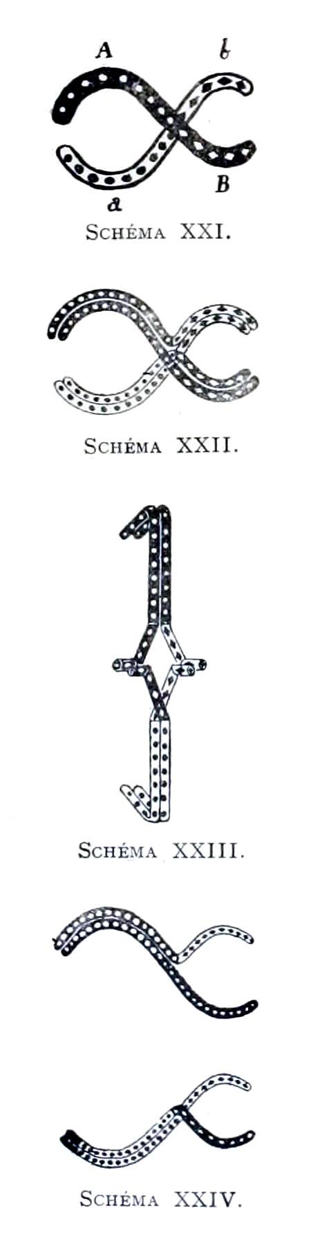 Janssens's theory of chiasmatype.